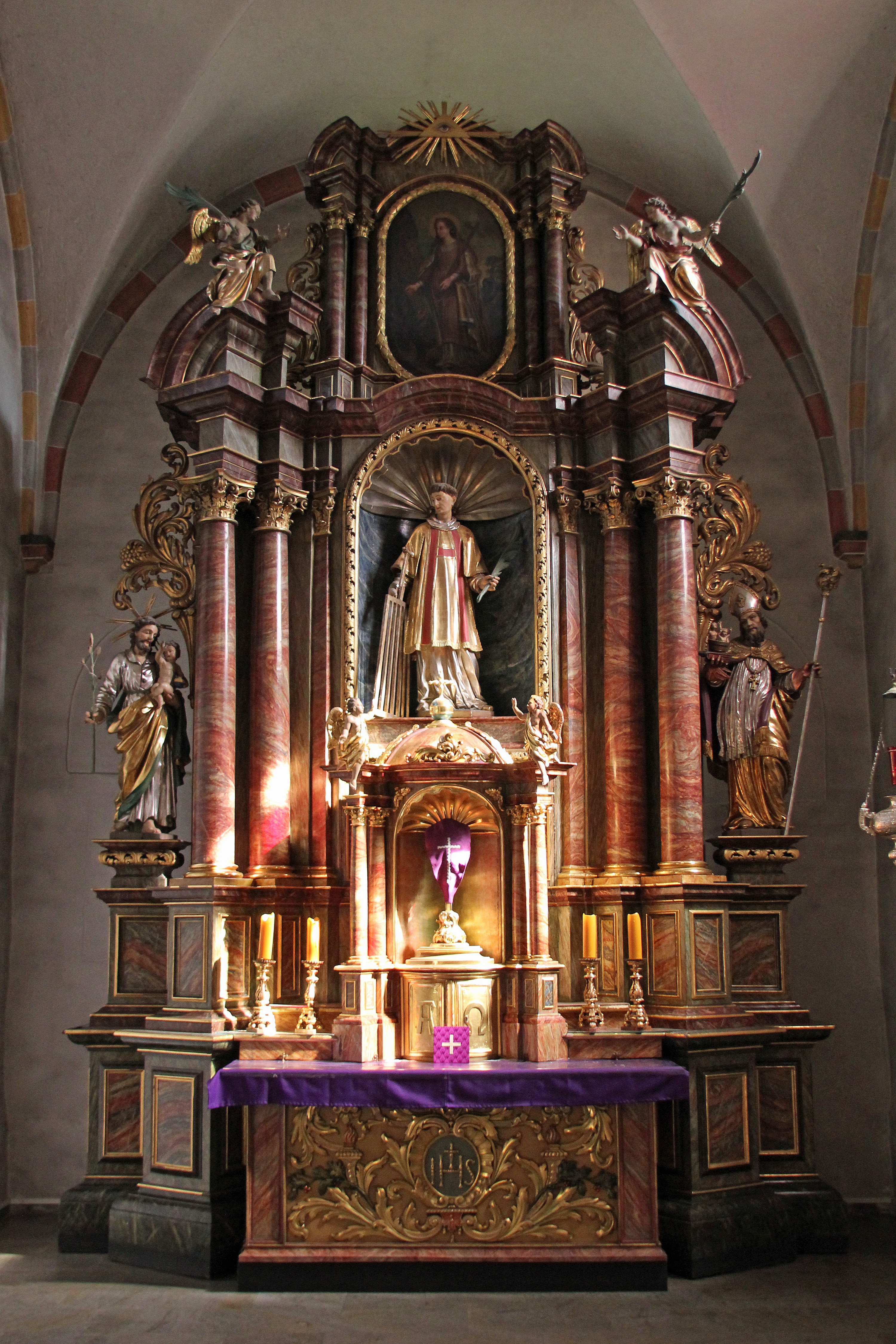 St. Laurentius church in Koblenz